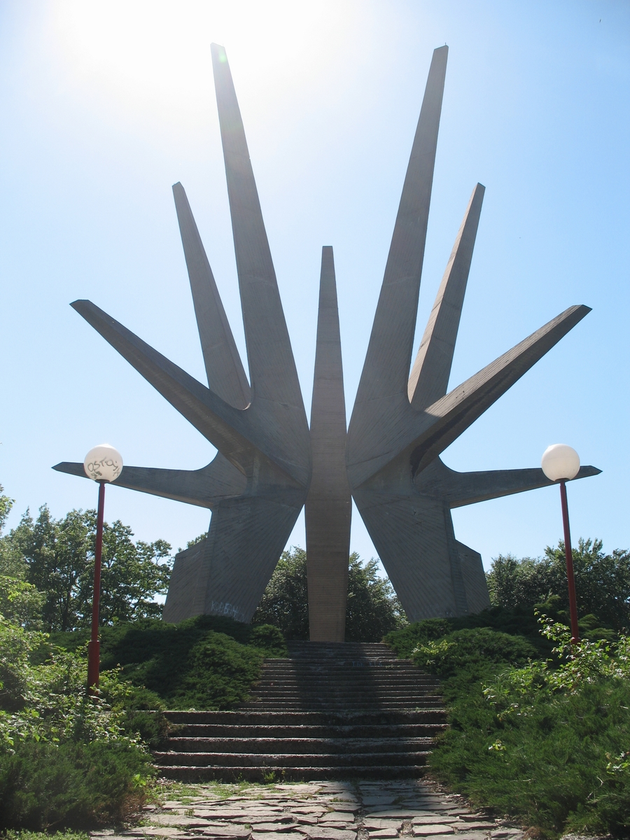 Monument to Kosmaj partisan division from WWII on top of Kosmaj mountain, near Belgrade, Serbia.